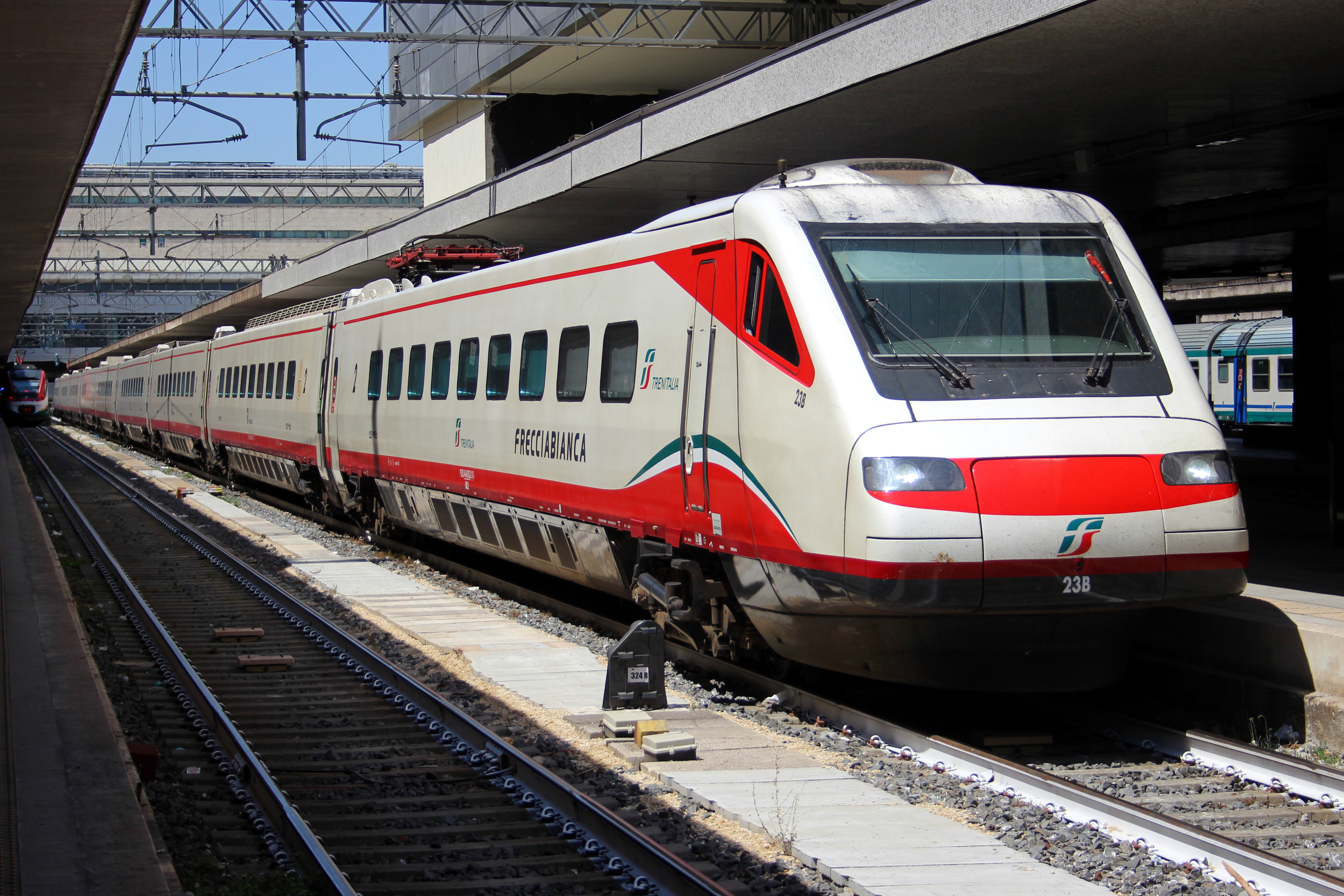 A tilting Pendolino ETR.460 (number 460023) in Frecciabianca livery at Roma Termini. These nine car units are the oldest Pendolino trains still in service, and their tilt has now been disabled. This example was working a Trenitalia Frecciabianca service, running at up to 125mph/200kph.